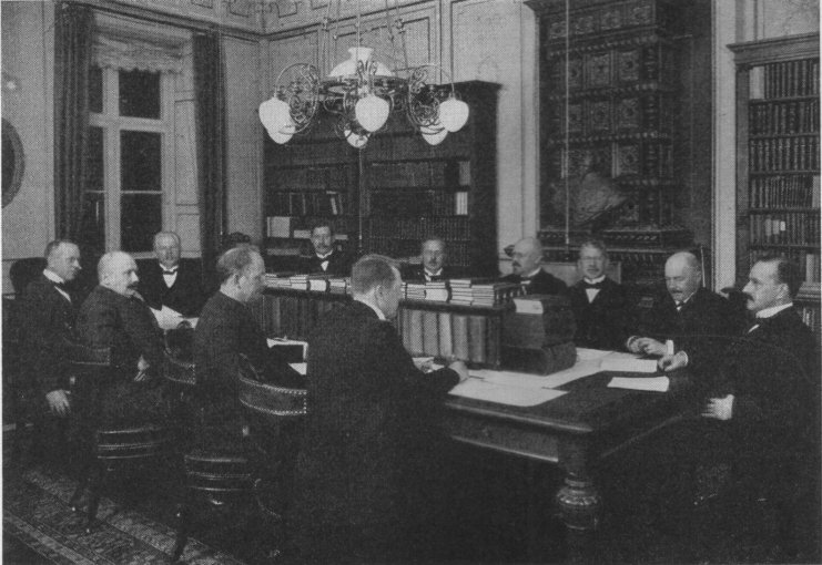 Cabinet of Karl Staaff 1911-1914